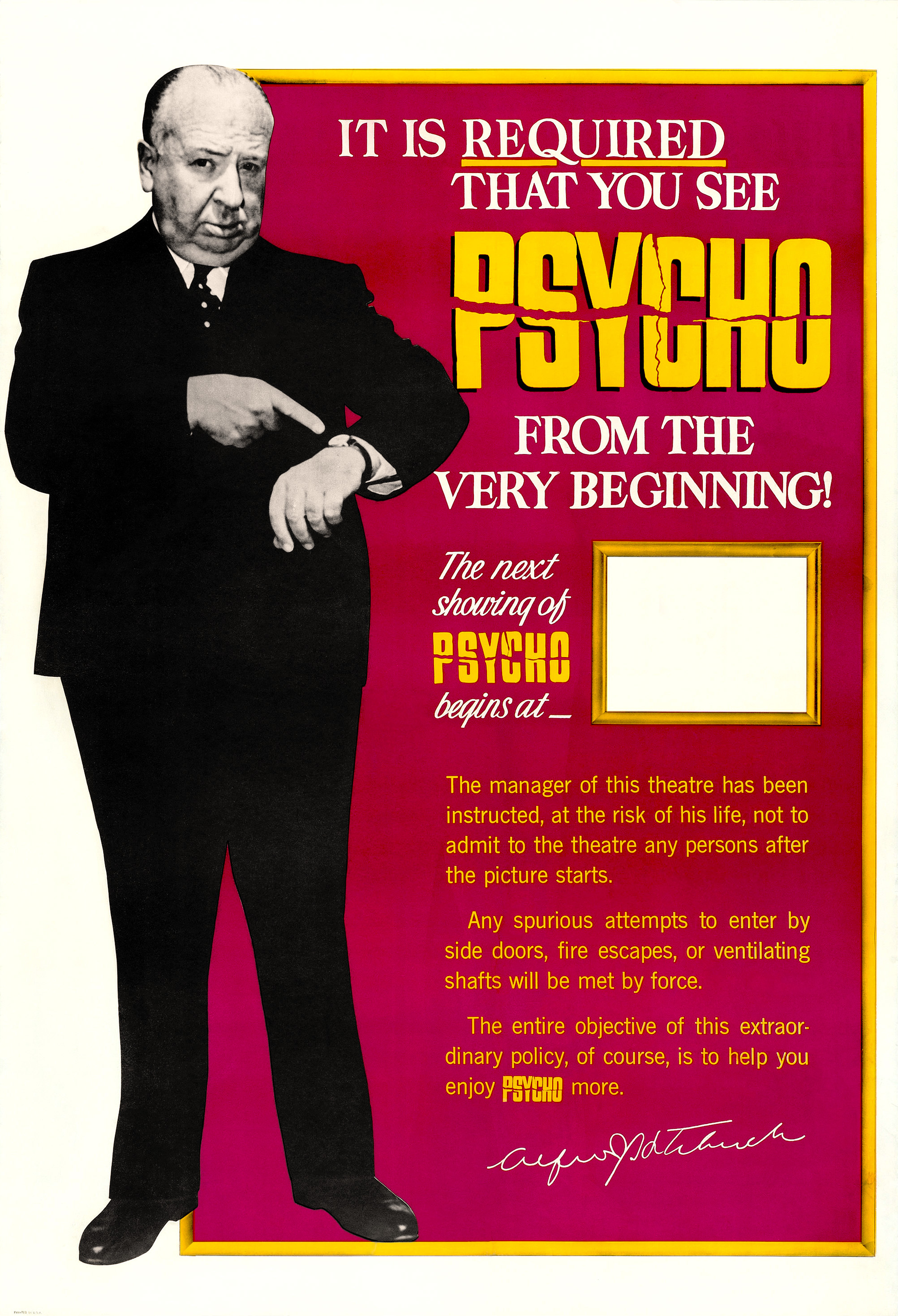 Poster for the American theatrical release of Alfred Hitchcock's 1960 film Psycho reminding the audience of its "no late admissions" policy for screenings, which was highly unusual for the time. Hitchcock stands at left, pointing at his wristwatch and sternly gazing at the viewer. The message reads: "It Is Required That You See Psycho From the Very Beginning! The next showing of Psycho begins at... [empty box for inclusion of showtime] The manager of this theatre has been instructed, at the risk of his life, not to admit to the theatre any persons after the picture starts. Any spurious attempts to enter by side doors, fire escapes or ventilating shafts will be met by force. The entire objective of this extraordinary policy, of course, is to help you enjoy Psycho more."— Alfred Hitchcock [signature]